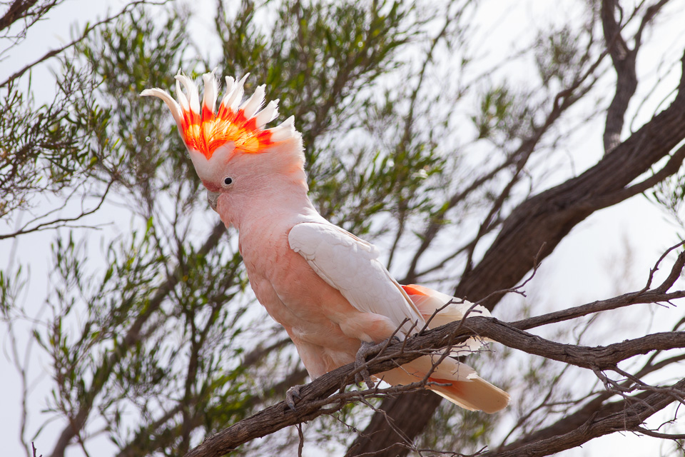 Major Mitchell's Cockatoo (Lophochroa leadbeateri)